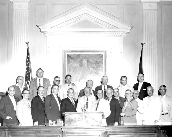 The Pork Chop Gang was a group of conservative lawmakers from north Florida, who had great influence in the legislature until the reapportionment in Florida's Constitution of 1968.